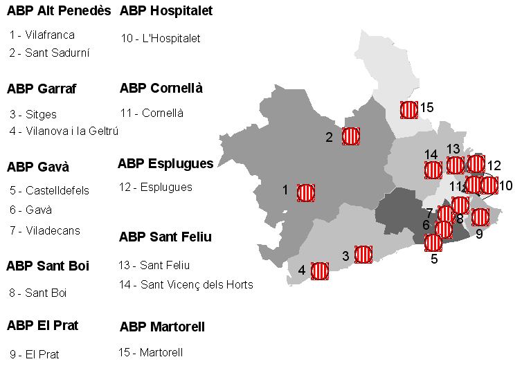 Map of South Metropolitan Police Region and police stations.